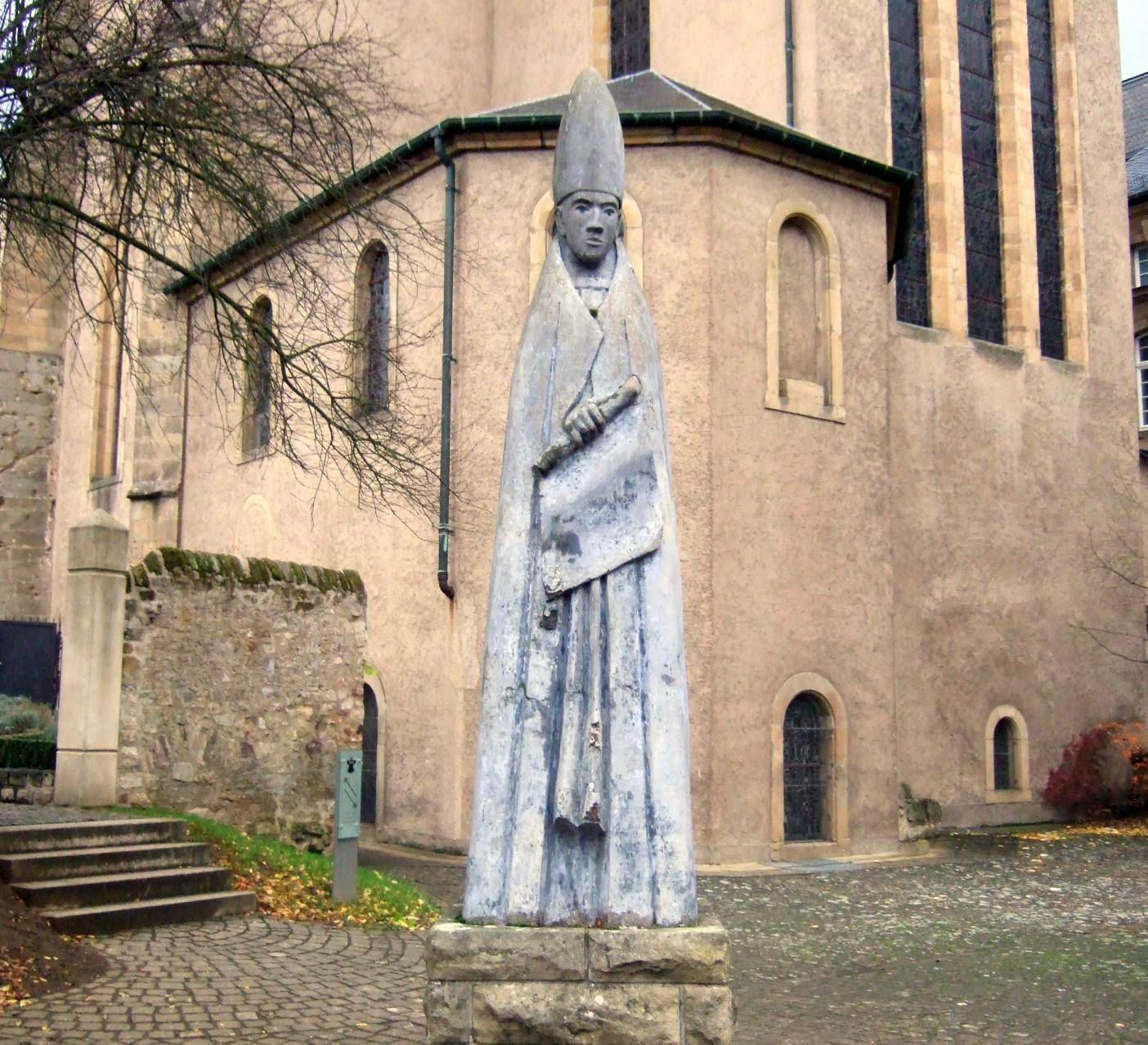 Statue of St. Willibrord in Echternach